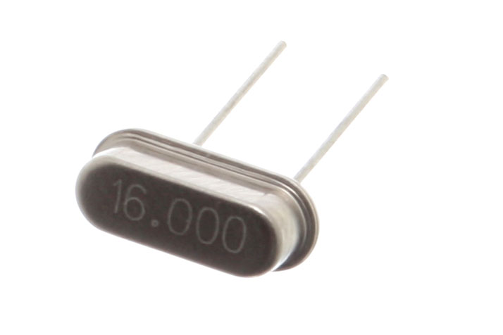 16MHz quartz crystal in HC-49/S package.